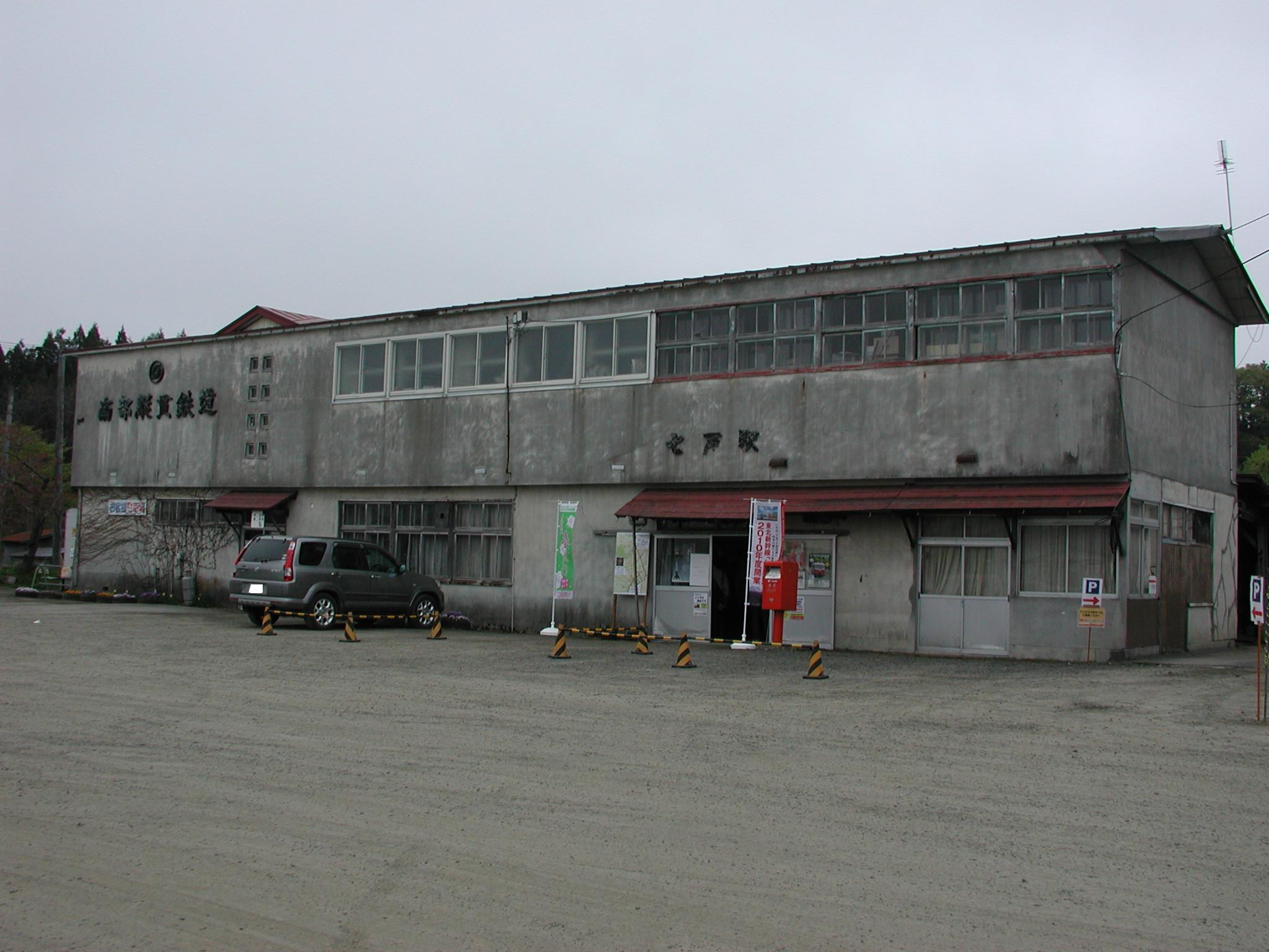 Nanbu Jukan Railway Shichinohe Station (now the head office of Nanbu Jukan co.)